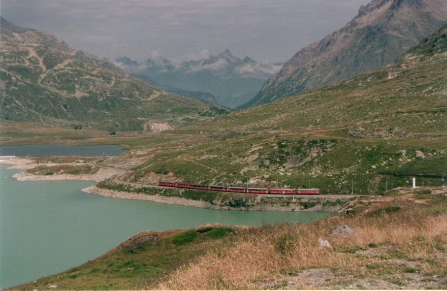 A Rhaetian Railway train near the Bernina Pass. In front an ABe 4 / 4I, behind an ABe 4 / 4III. The two lakes are on the linguistic border, the Lago Bianco in the foreground has an Italian name, the Lej Nair in the background a Romansh name.